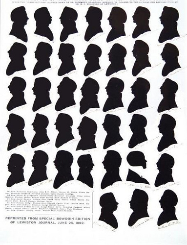 Illustration from The Lewiston Journal, Maine, June 25, 1902, of the silhouettes of the famous graduating class of 1825 from Bowdoin College, Brunswick, Maine. Among the silhouettes features are those of Nathaniel Hawthorne, Henry W. Longfellow and Jonathan Cilley. Courtesy of the Maine Historical Society. Retouched by MarmadukePercy